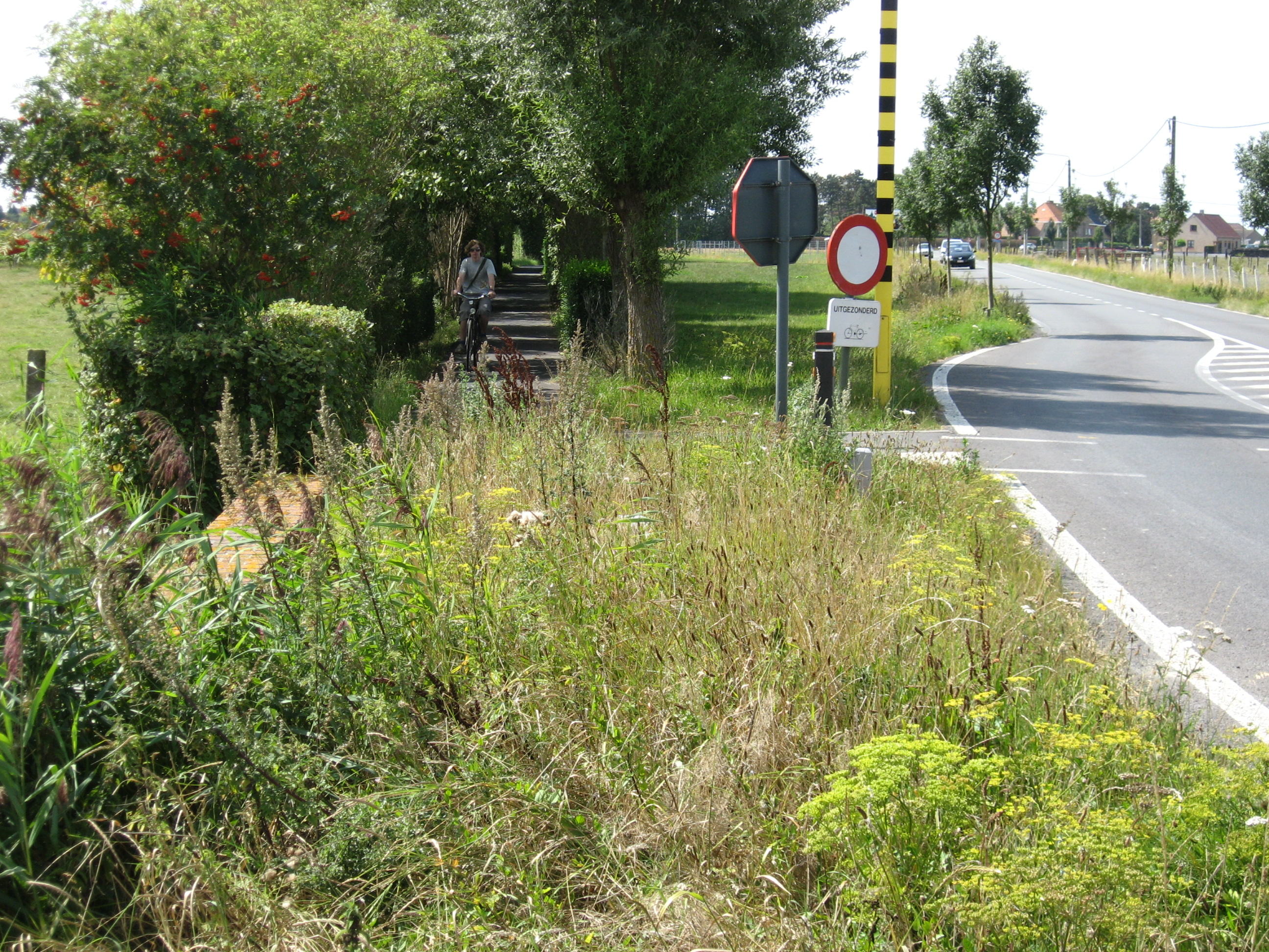 The old vicinal railway converted into a cycle path. The start of the path towards Leffinge.